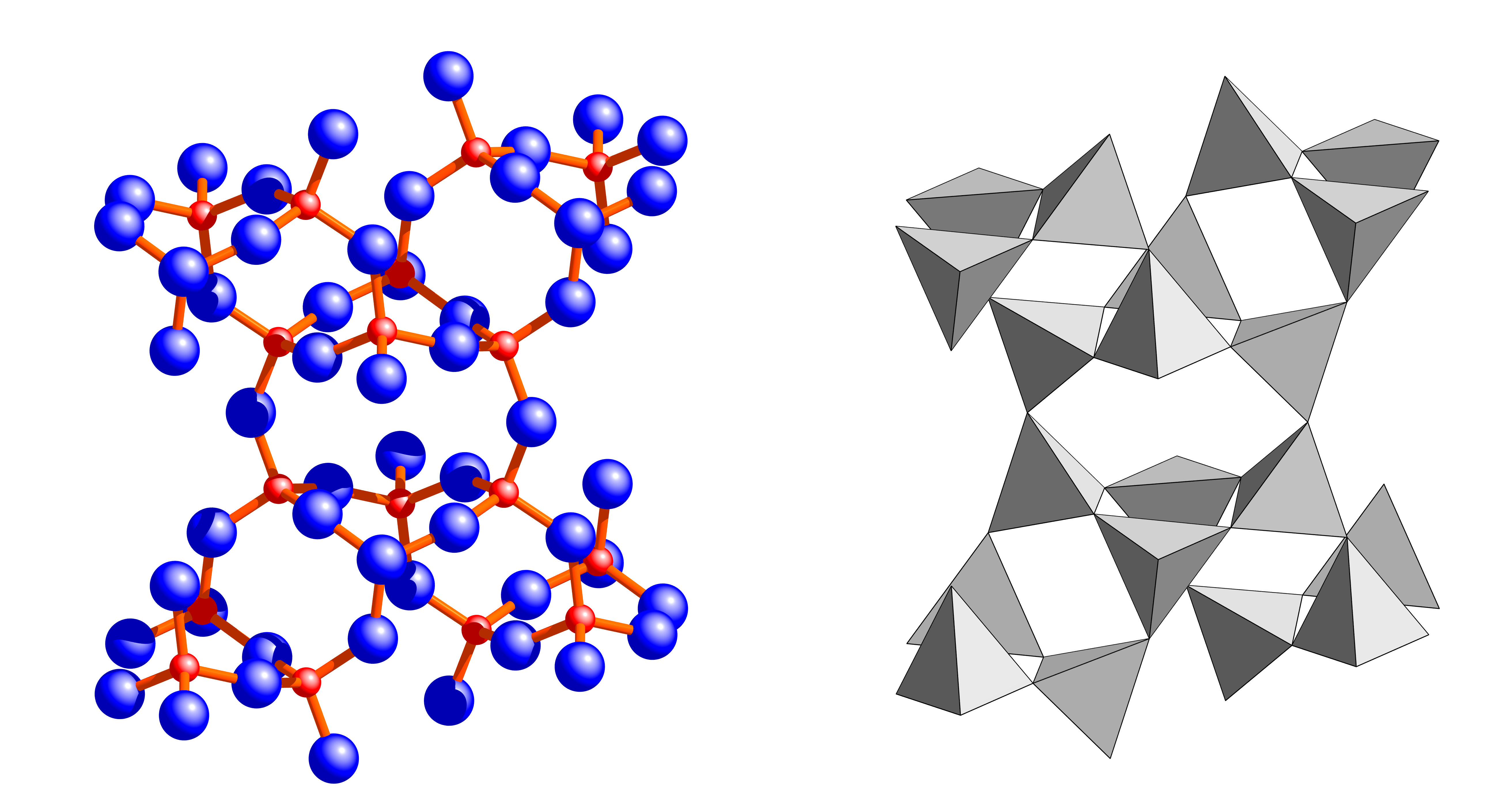 Alumosilicate framework of Orthoclase left: atoms (Si: red, O: blue) right: SiO4 tetrahedra